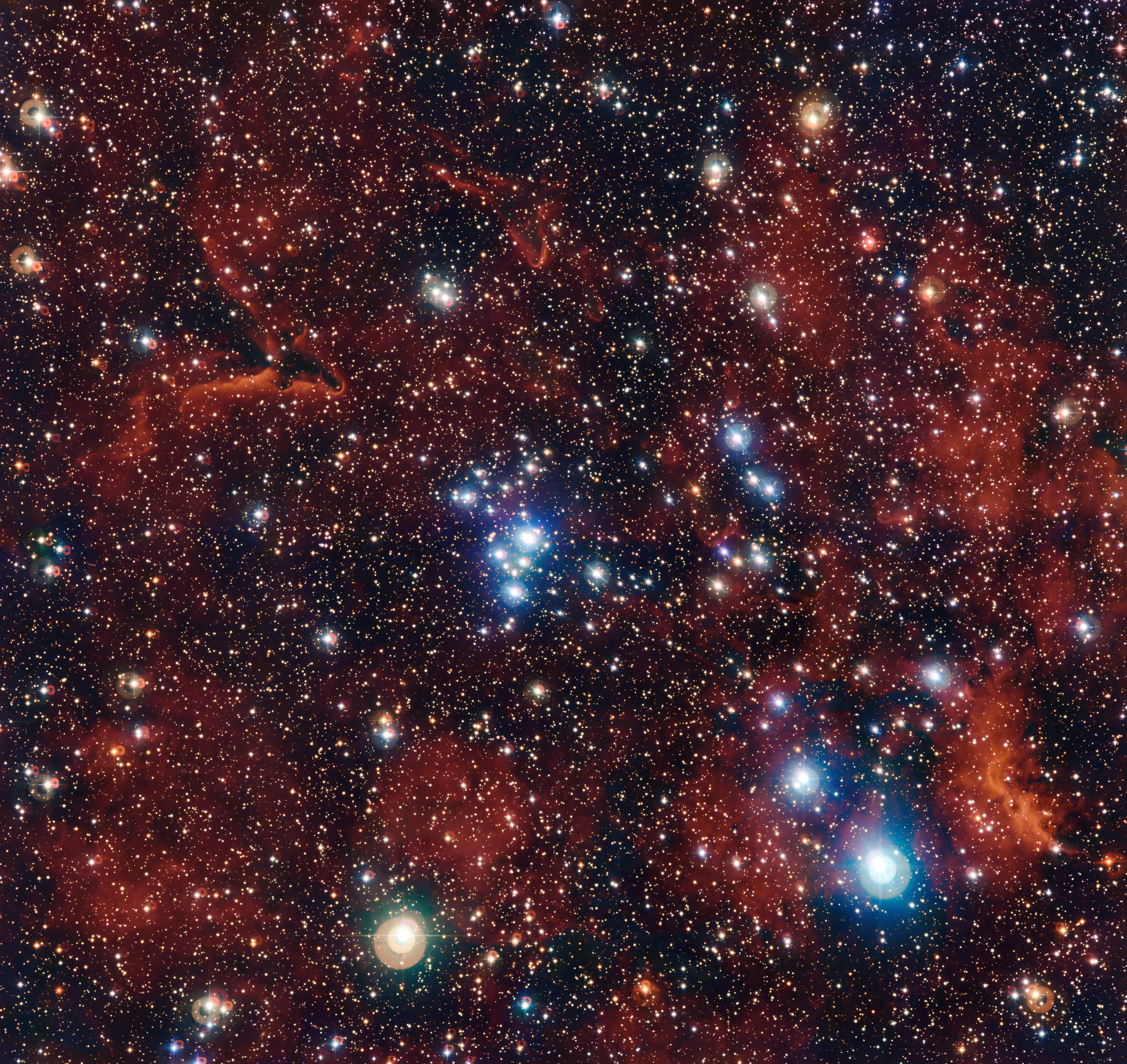 This rich view of an array of colourful stars and gas was captured by the Wide Field Imager (WFI) camera, on the MPG/ESO 2.2-metre telescope at ESO’s La Silla Observatory in Chile. It shows a young open cluster of stars known as NGC 2367, an infant stellar grouping that lies at the centre of an immense and ancient structure on the margins of the Milky Way.